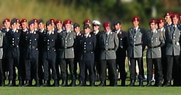 Recruits of the German Military's Joint Support Service ("Streitkräftebasis") during the ceremonial oath of Chiron.